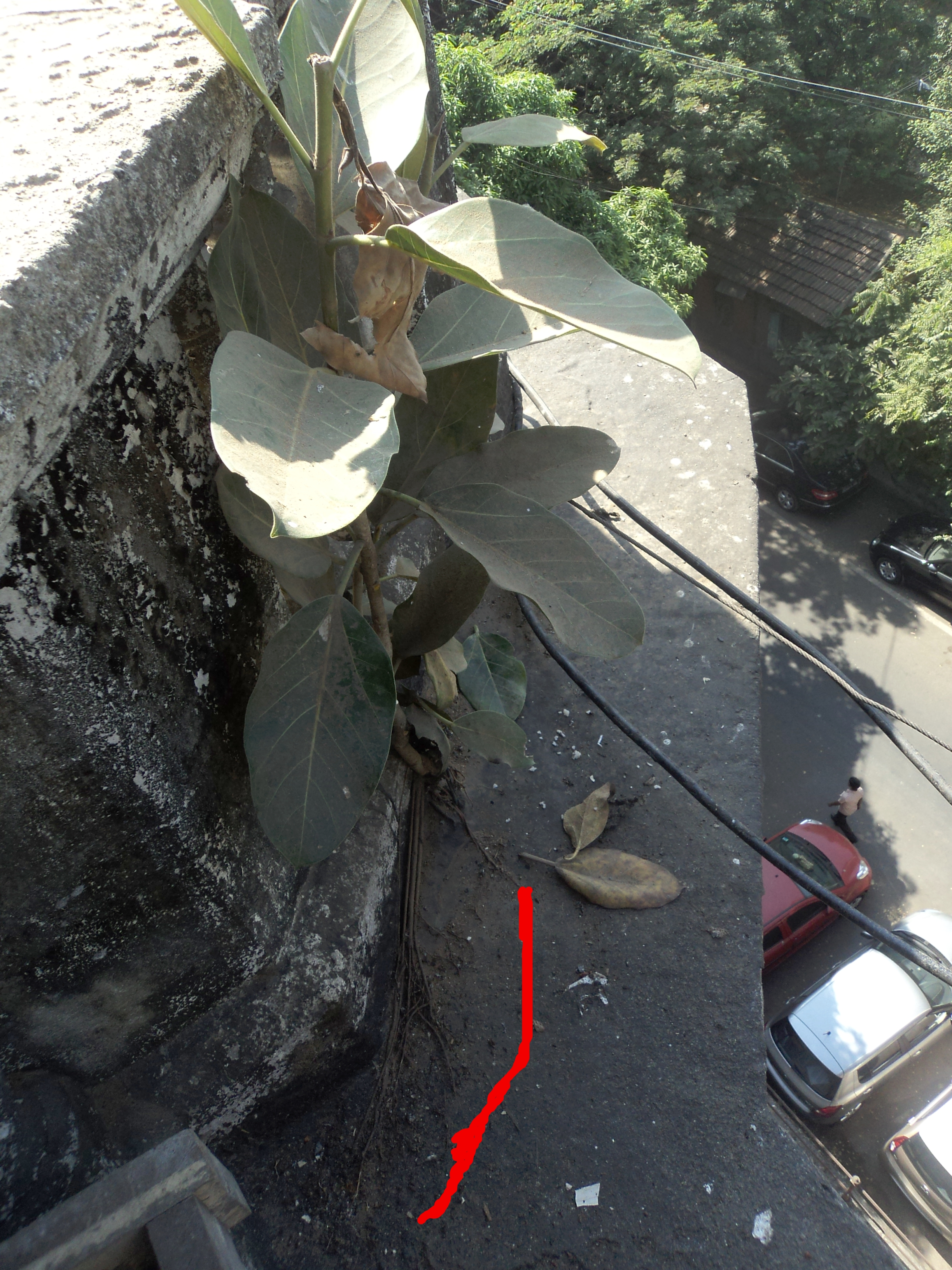 plant growth on the bulding, Tamil Nadu